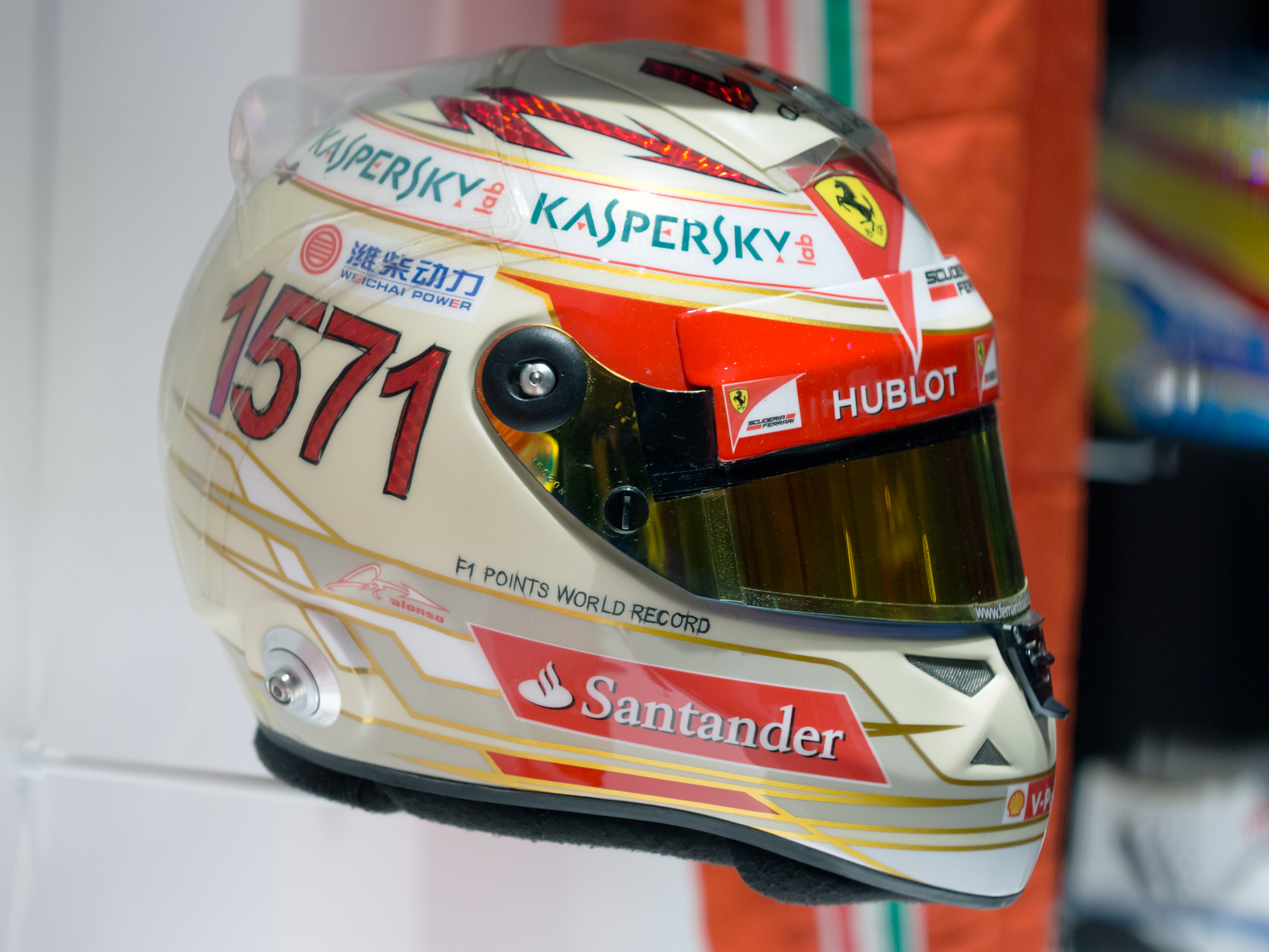 Museo y Circuito Fernando Alonso: Fernando Alonso's helmet at the 2013 Indian Grand Prix